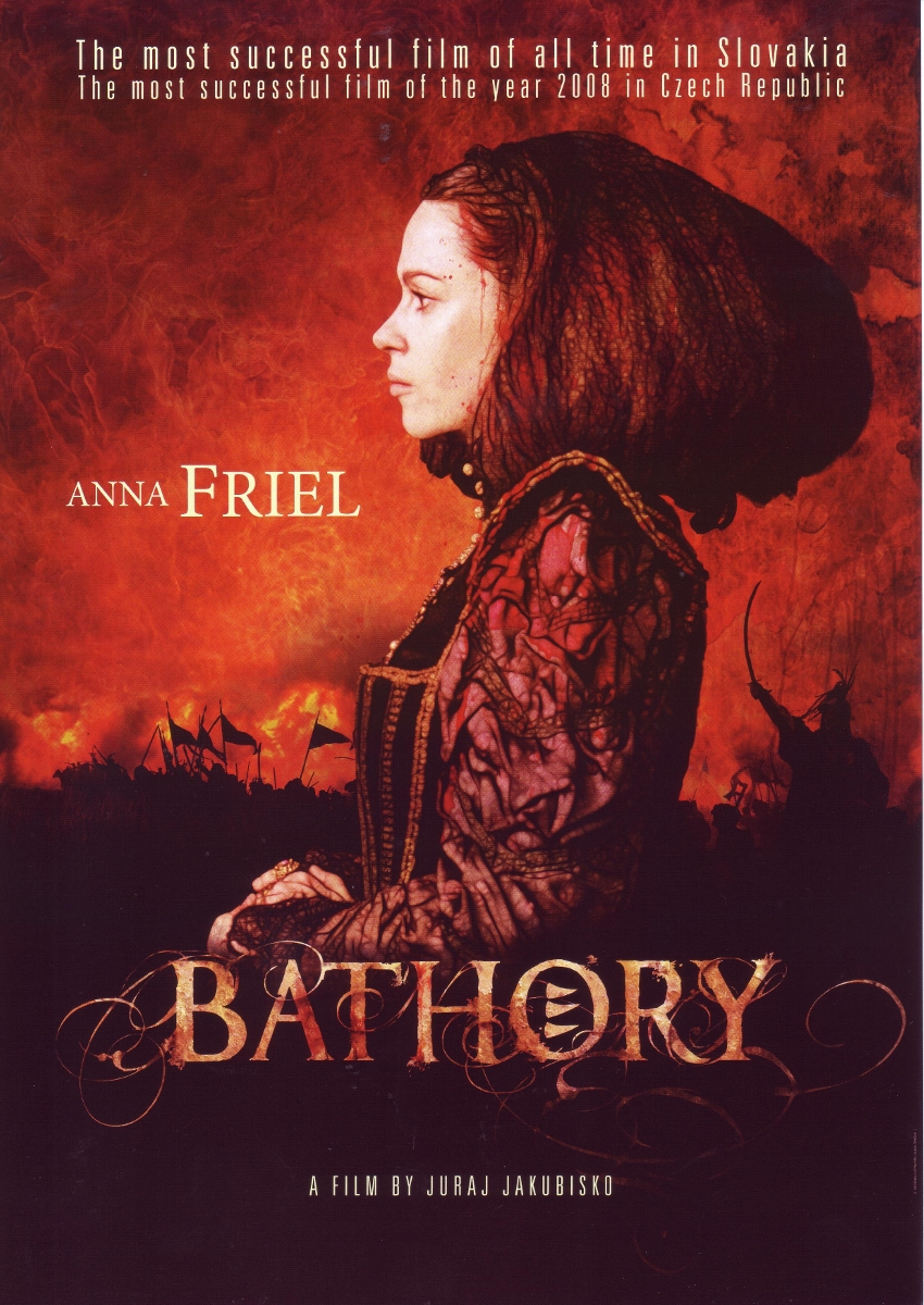 Official poster for the movie Bathory